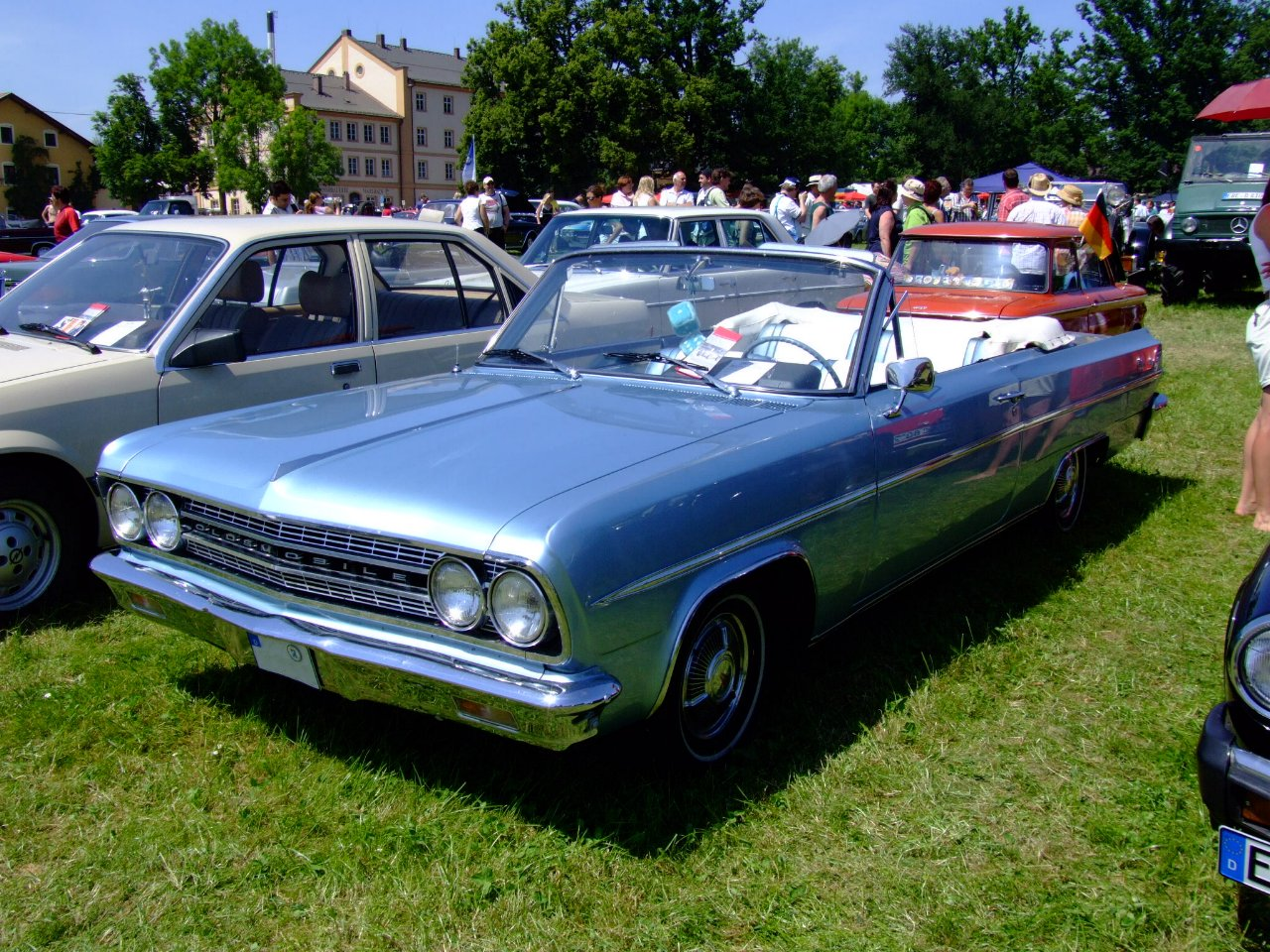 1963 Oldsmobile F85 Deluxe Convertible, Engine V8 215 cid (3.5 litre), 155 bhp (114 kW)